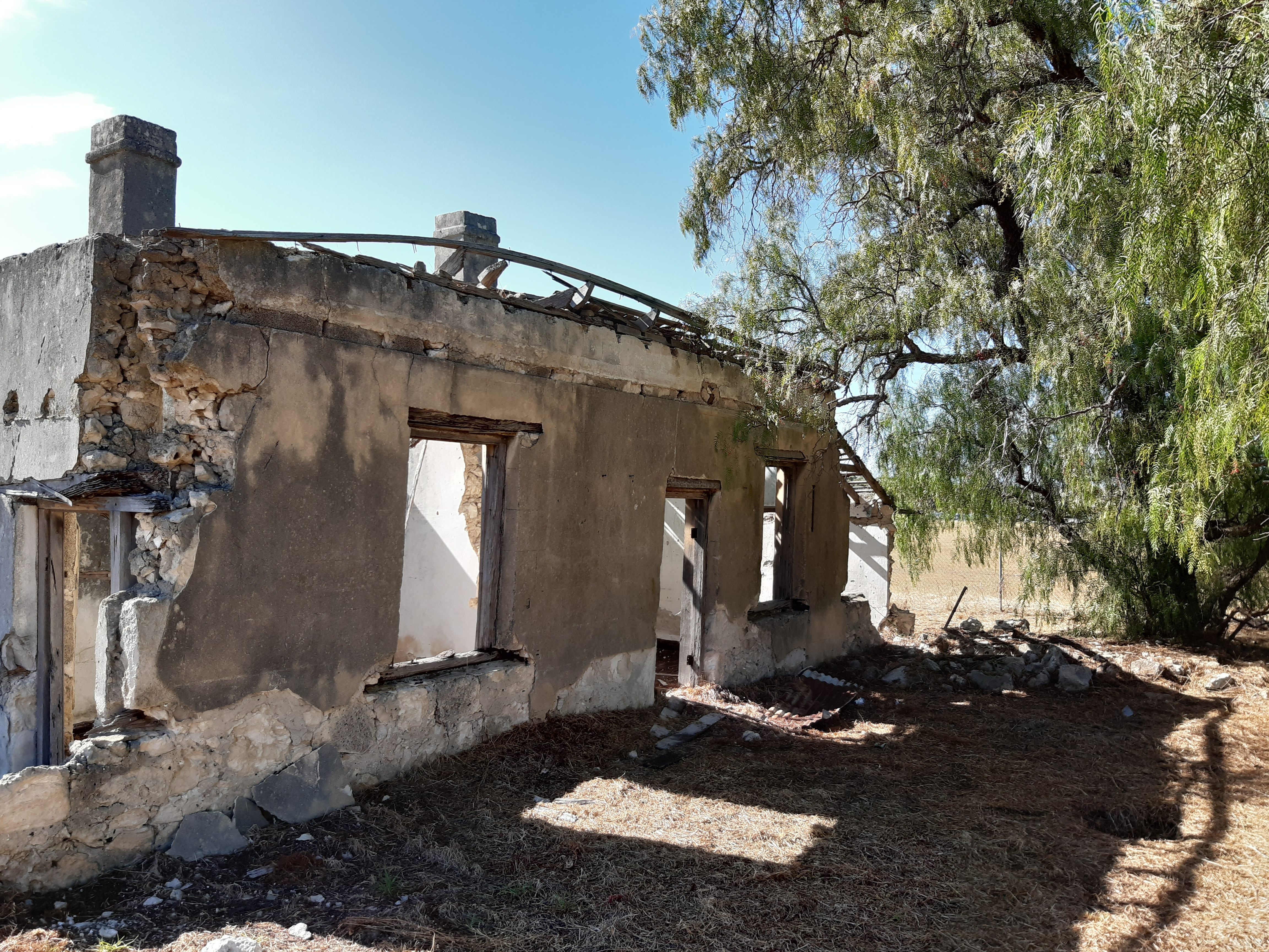 The ruins of Bell Cottage, East Rockingham, Western Australia. The cottage dates back to 1868.